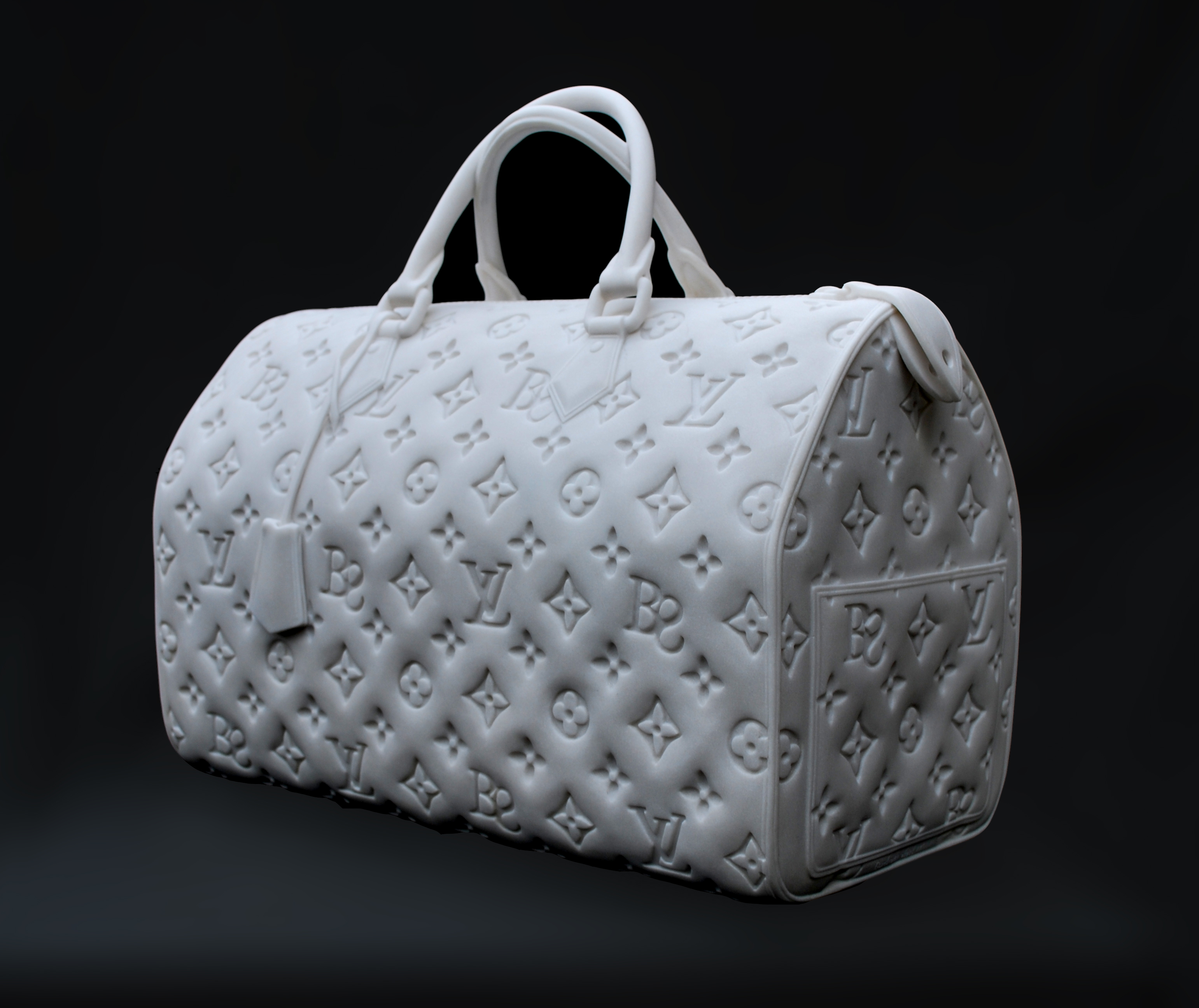 In L.V.B.S. I am, for the first time, incorporating my initials (BS), as my personal brand, into the object.